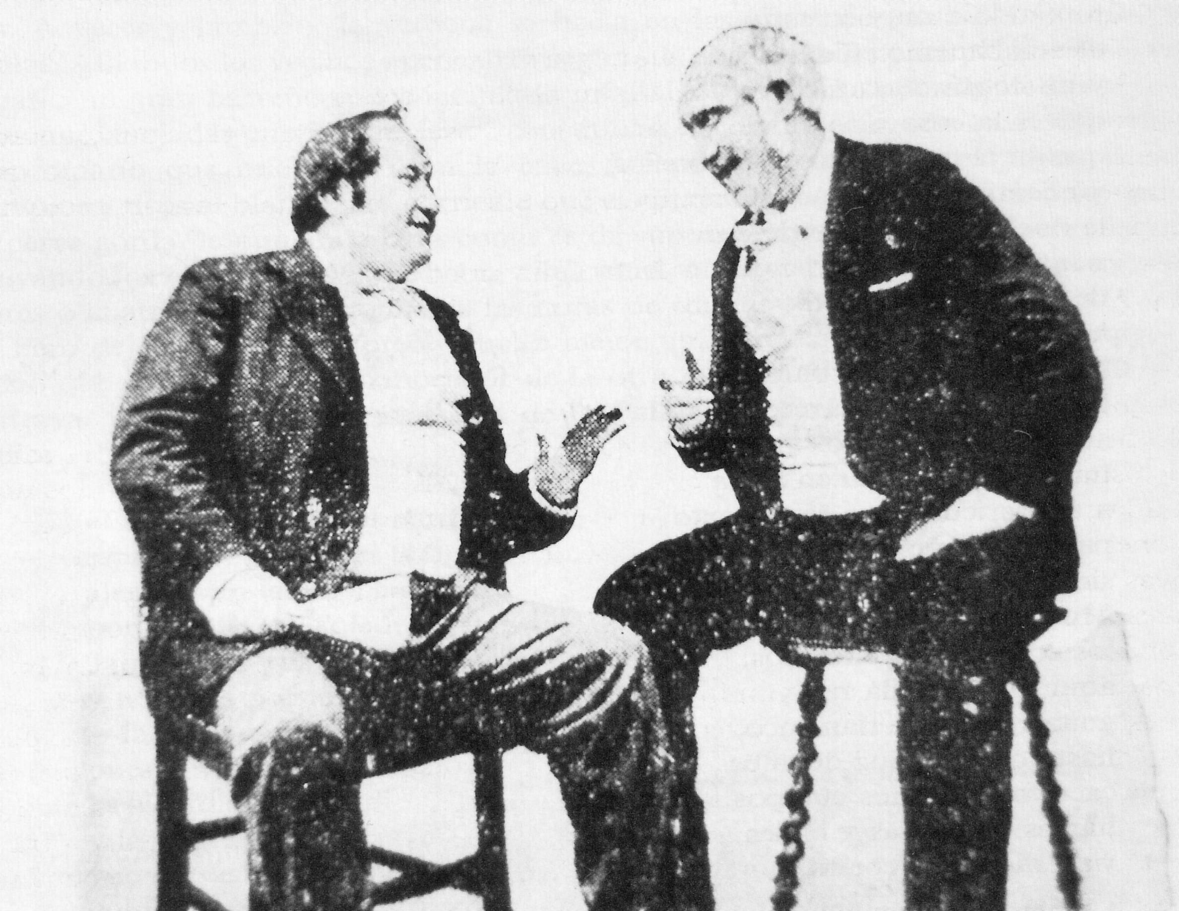 Scenes of the first representation of 'La verbena de la Paloma', on February 17, 1894, at the teatro Apolo in Madrid.